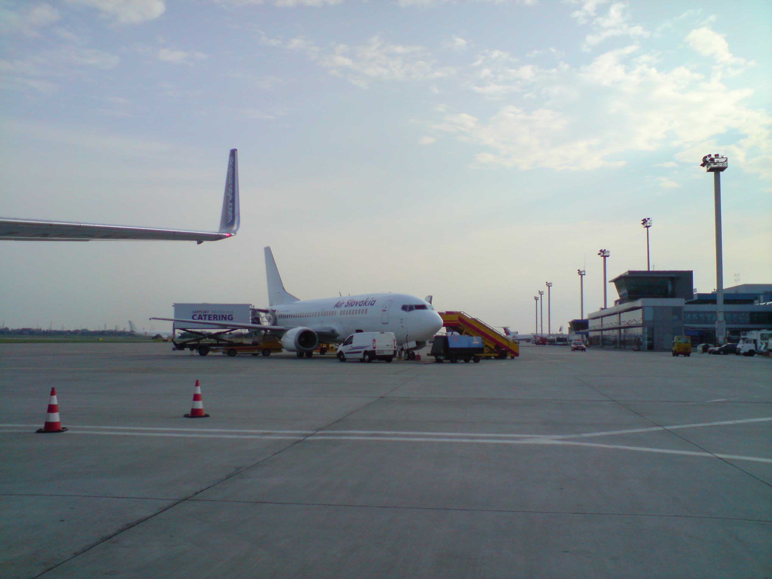 Sunny Beach, Bulgaria, july/august 2008